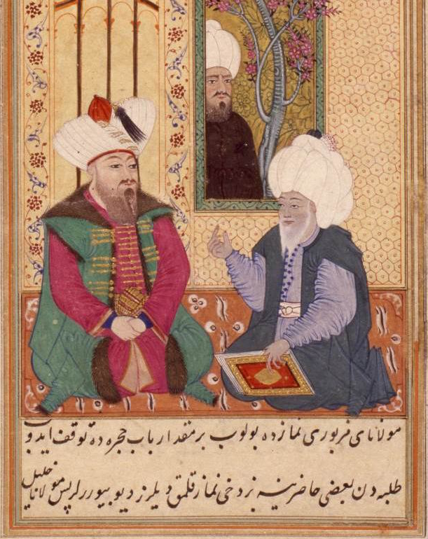 Sultan Orhan Gazi of the Ottoman Empire meeting with Alaeddin Al-Esved, a well known Muslim Scholar at his time